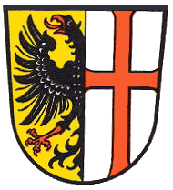 Coat of arms of the German town of Memmingen